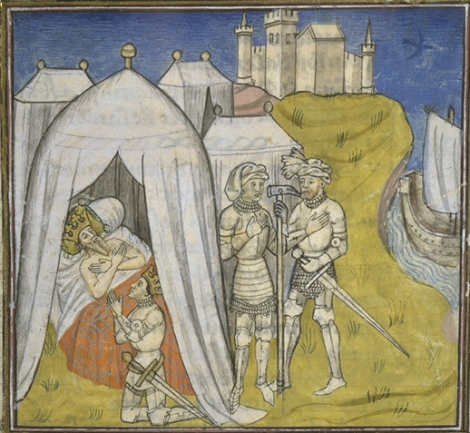 Louis IX and Charles of Anjou